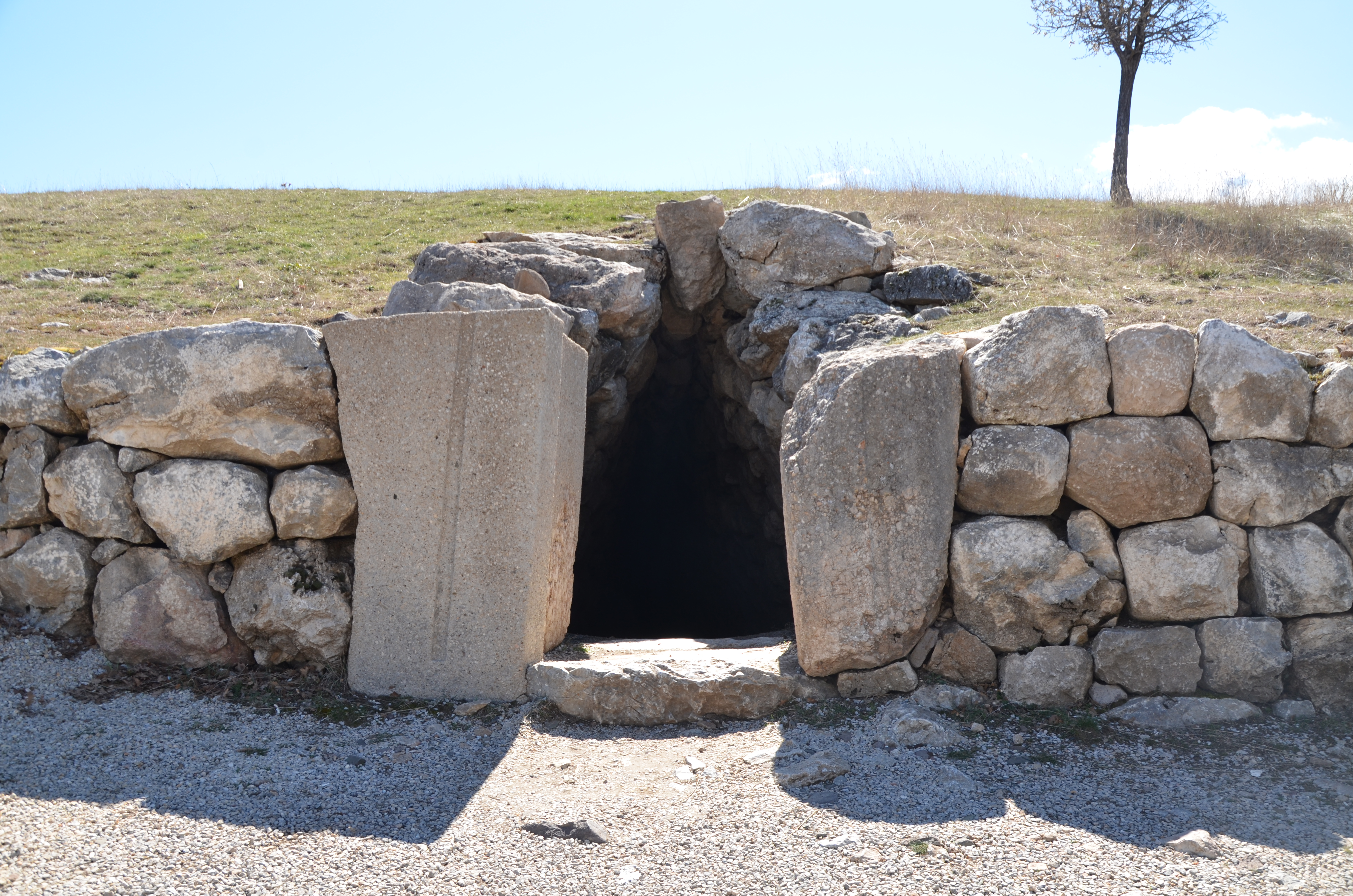 The entrance to the 70 m long tunnel running under the Yerkapi Rampart, Hattusa, the capital of the Hittite Empire in the late Bronze Age, Boğazkale, Turkey